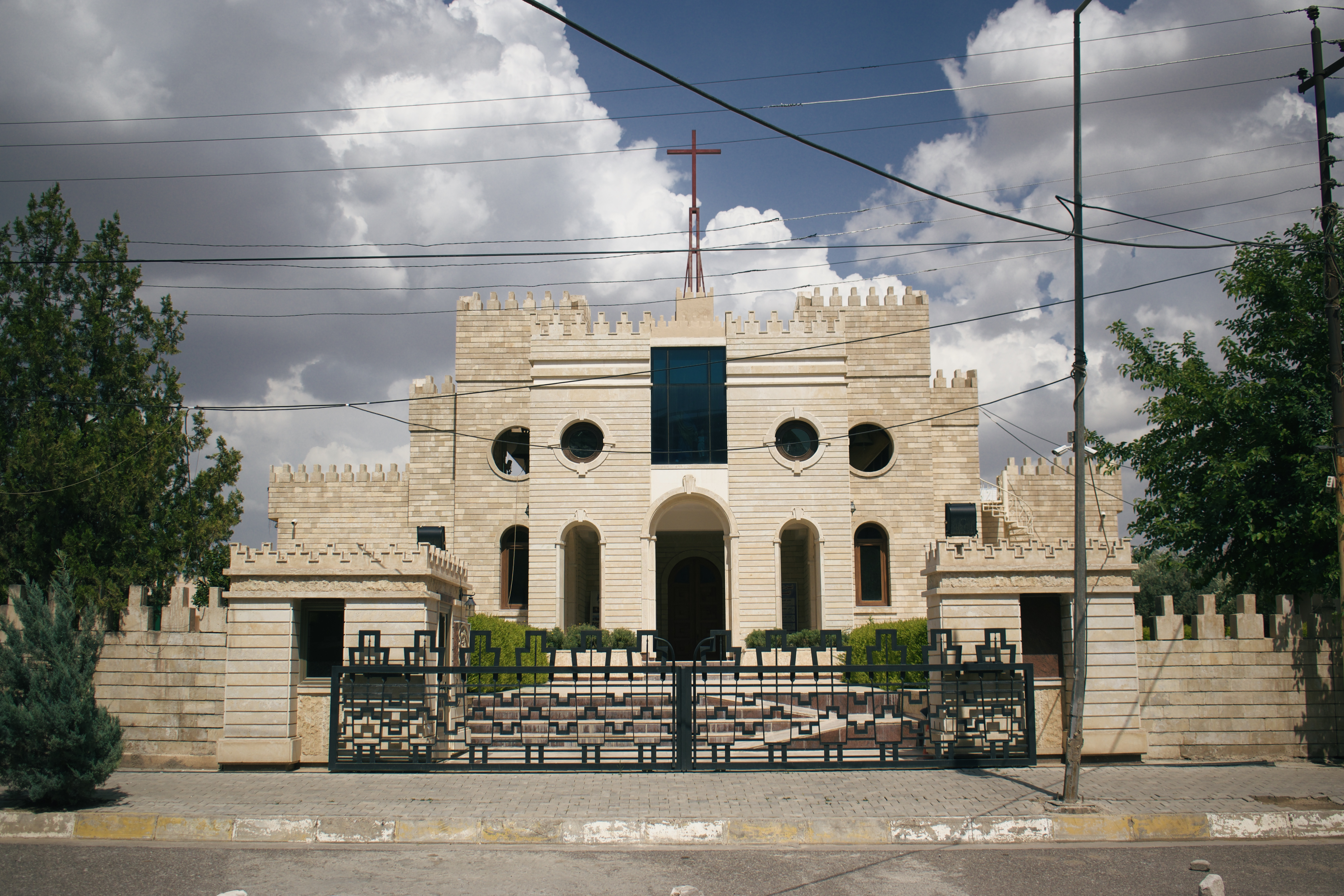 Church of Saint Joseph in Ankawa